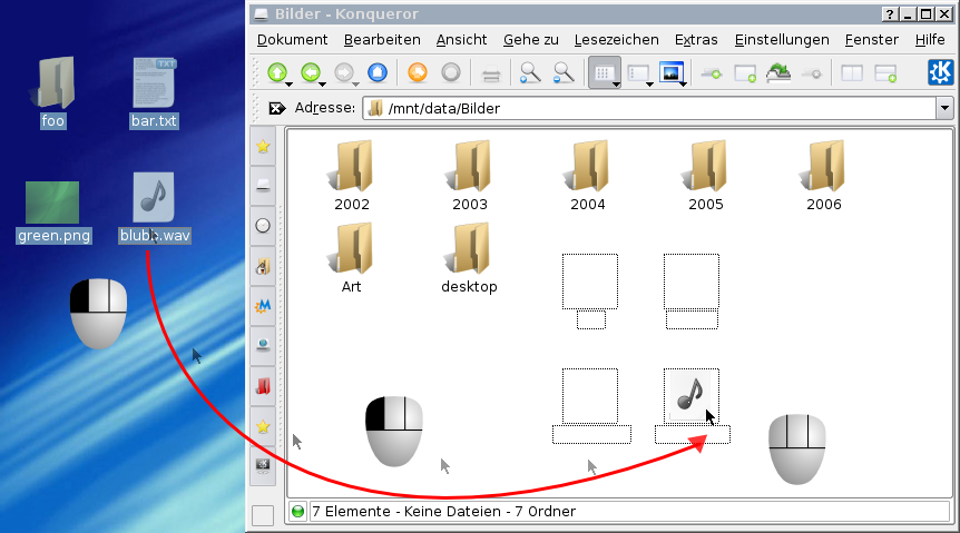 This screenshot shows Konqueror and Kdesktop (both KDE) while moving some files by using the so-called "drag and drop" ;-) This is the language neutral template used as a basis for language implementations: The language neutral template German English Spanish